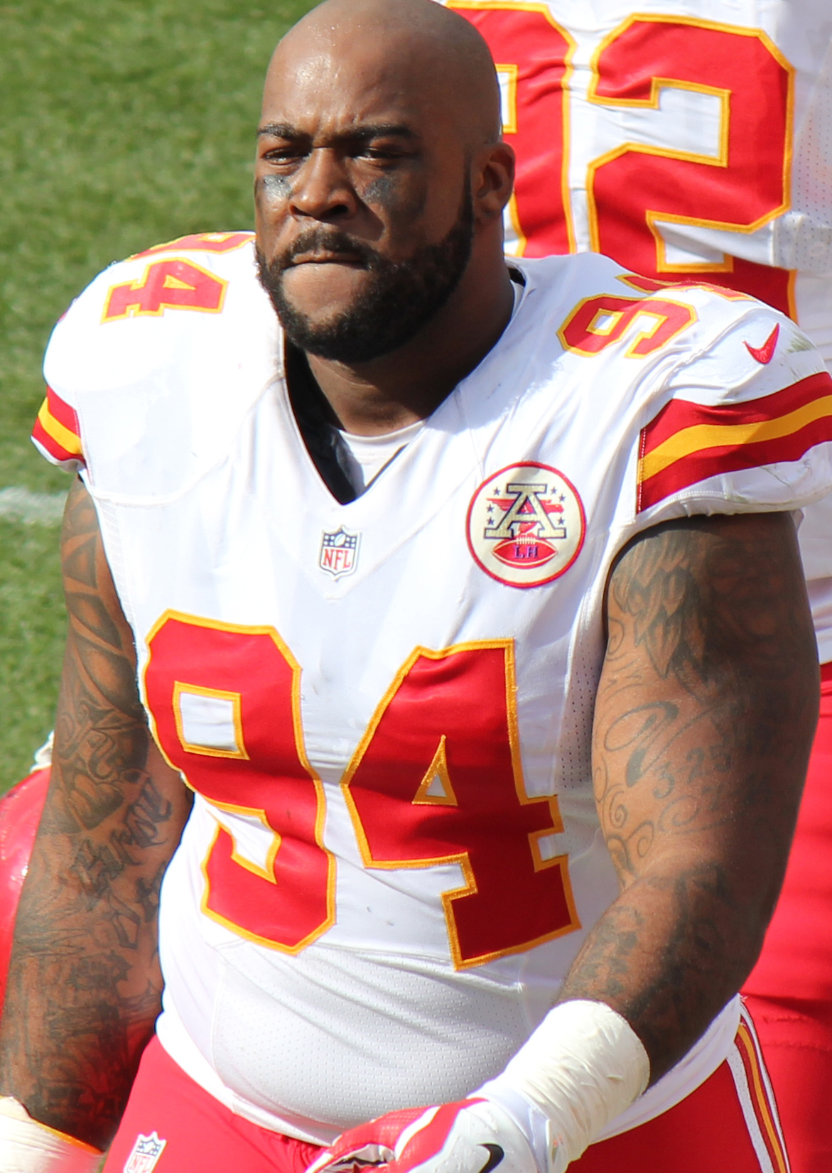 Kevin Vickerson, a player on the National Football League.